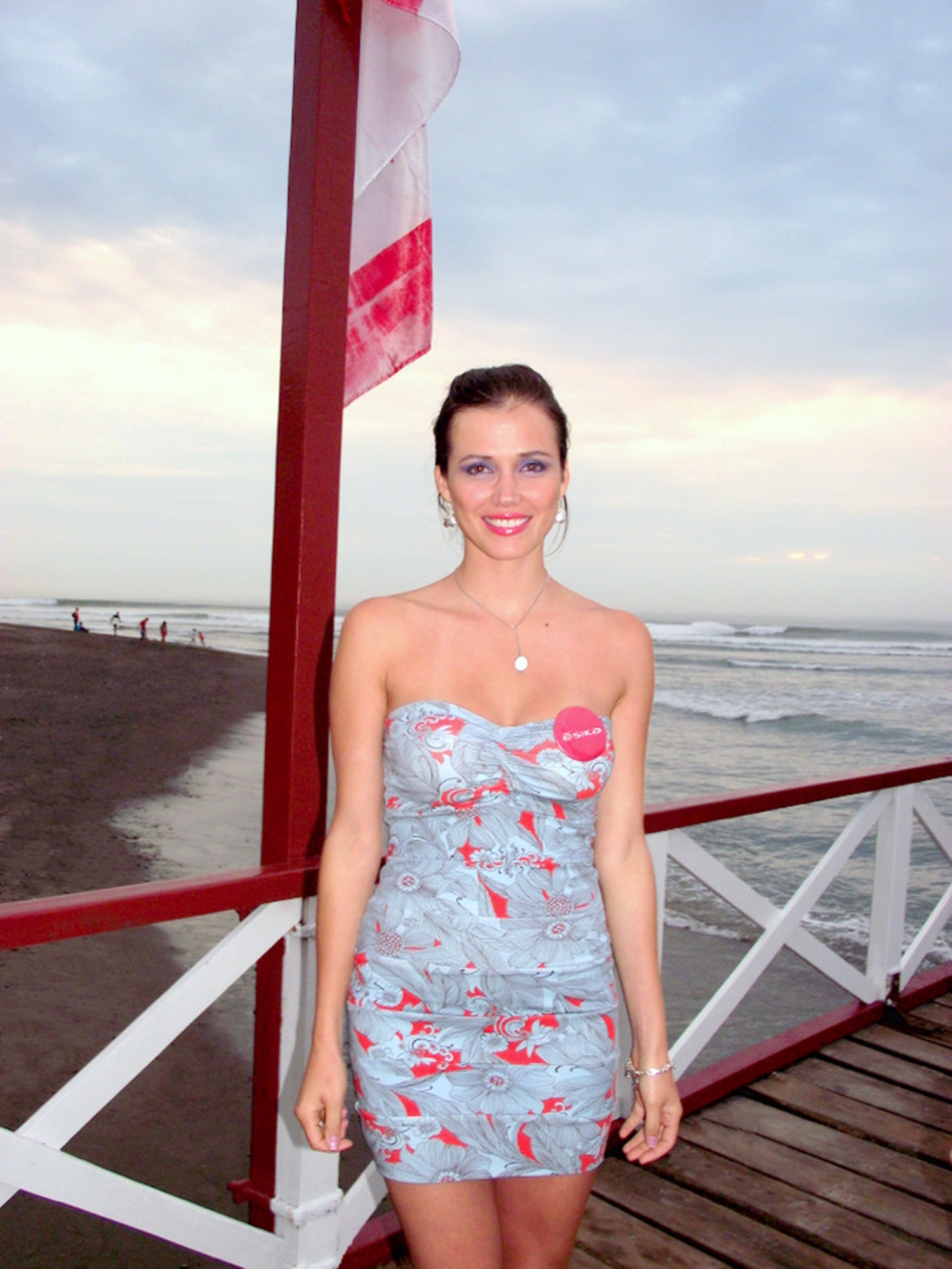 Maju Mantilla en Huanchaco Beach, Trujillo, Peru